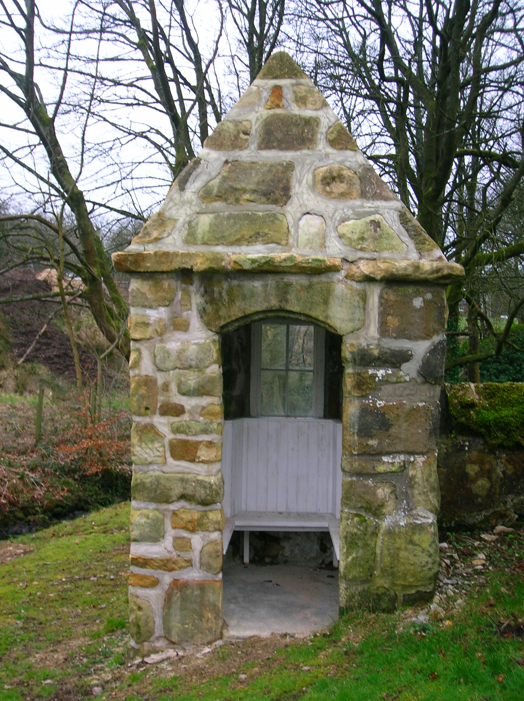 Summer House, Monkredding, Kilwinning, North Ayrshire, Scotland